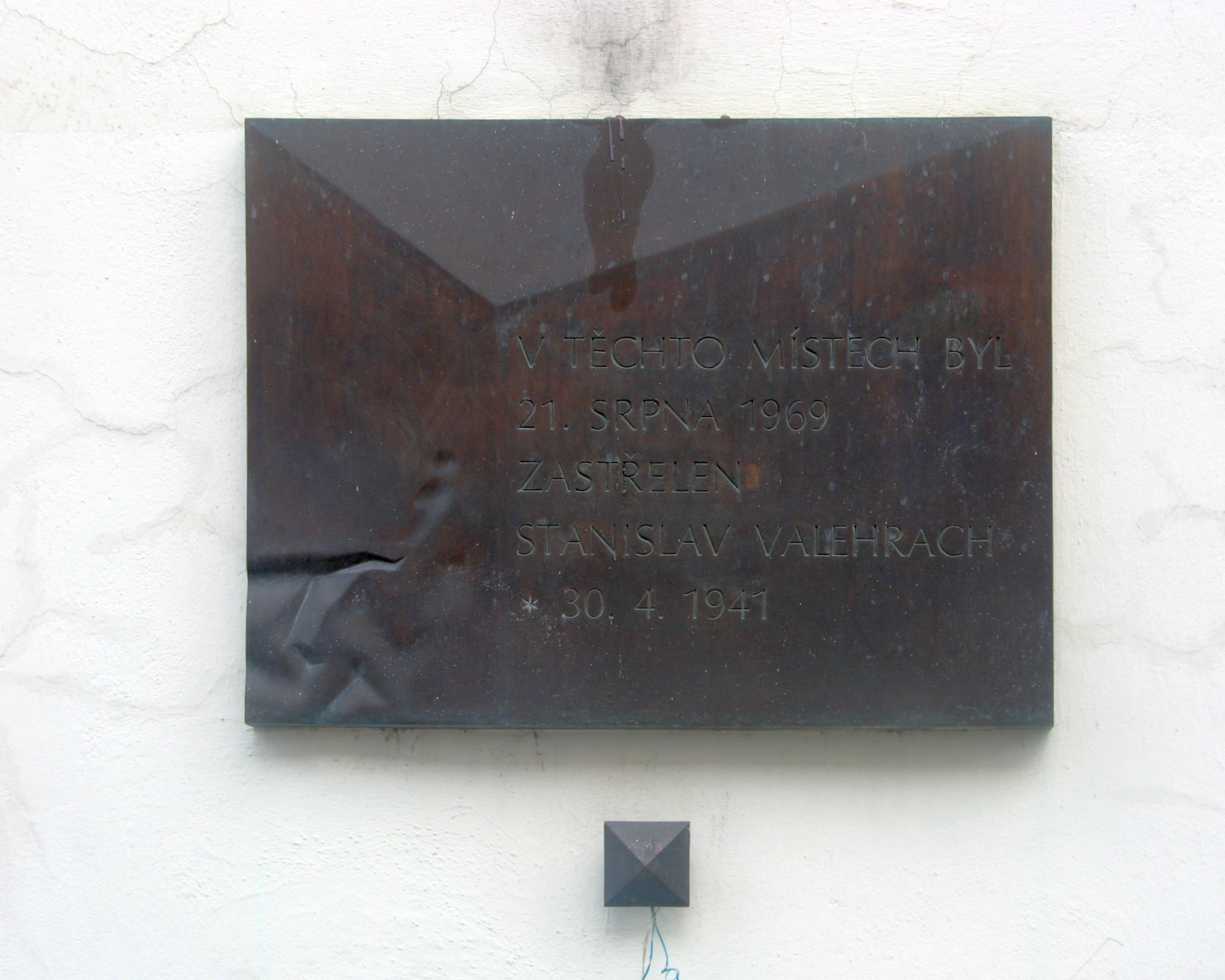 Memorial plaque, Stanislav Velehrach in street Orlí 516/20, Brno - Czech Republic